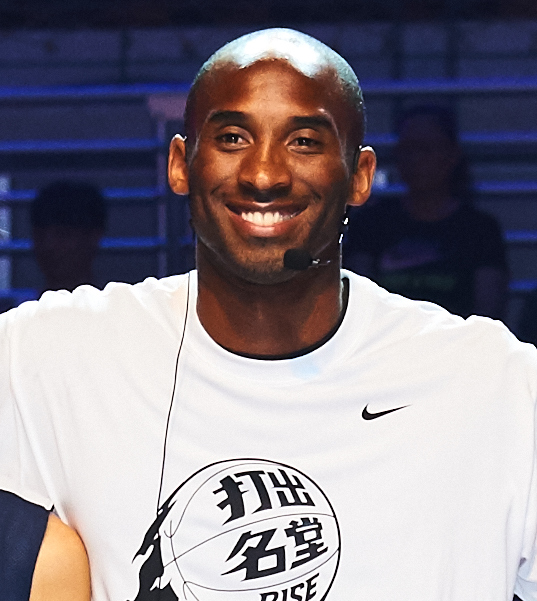 Kobe Bryant at Taiwan